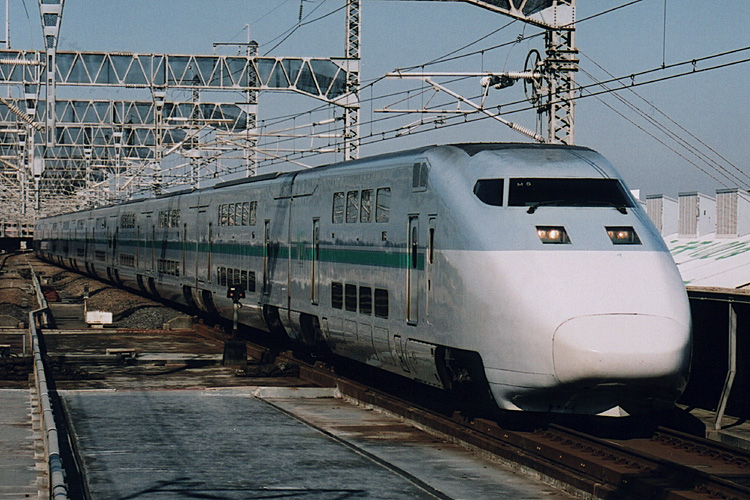 JR East E1 series Shinkansen in original colour scheme at Omiya Station